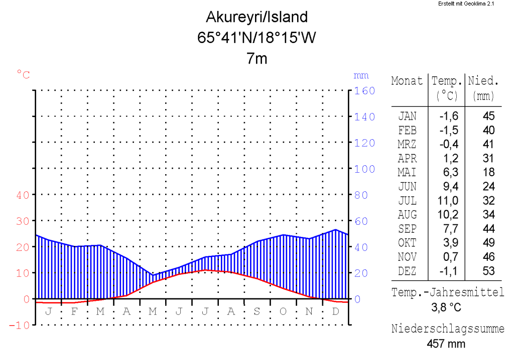 climate chart in the format by Walter and Lieth, metric, °Celsisus and millimeters, made with Geoklima 2.1